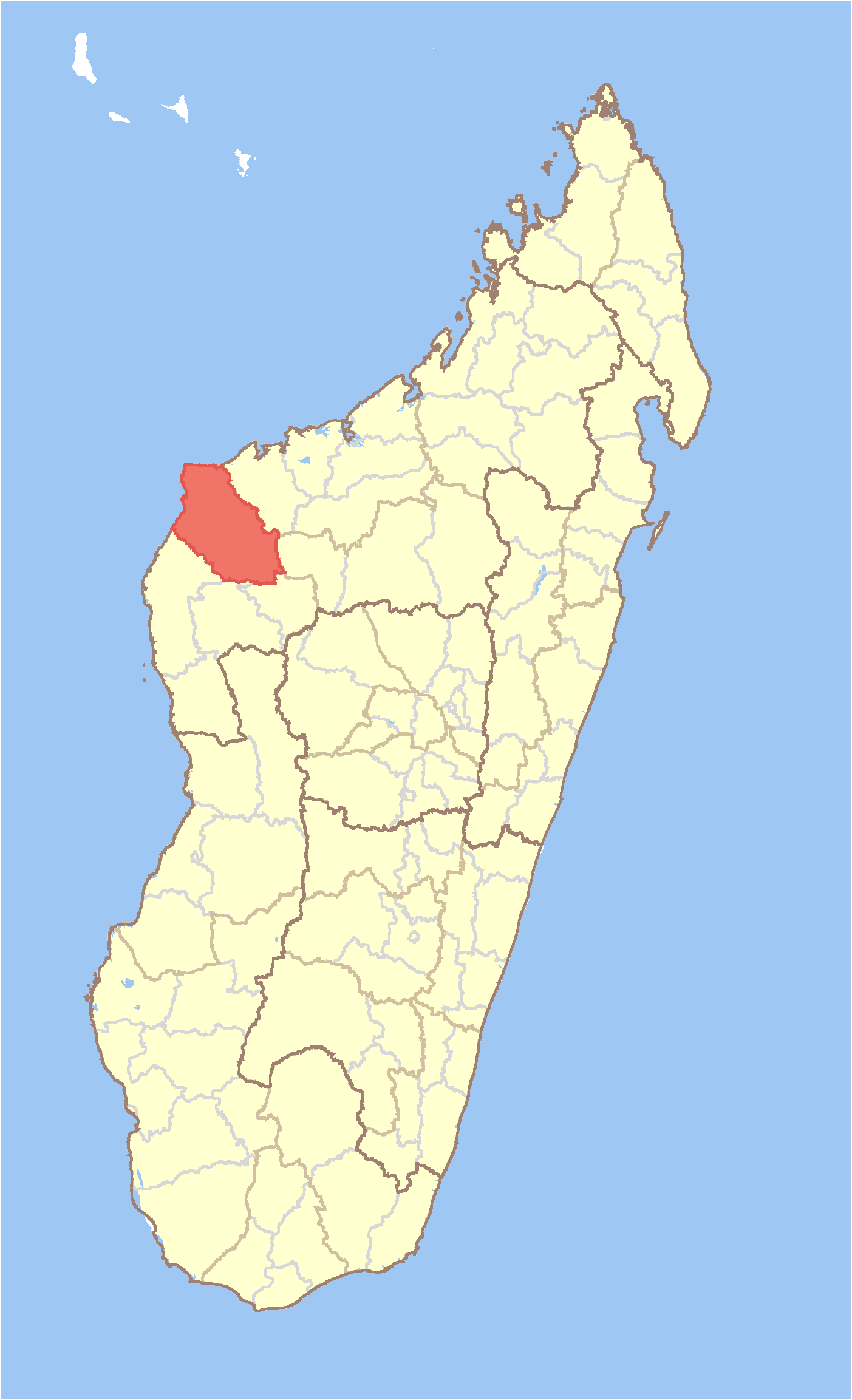 Map of Madagascar with Besalampy District highlighted